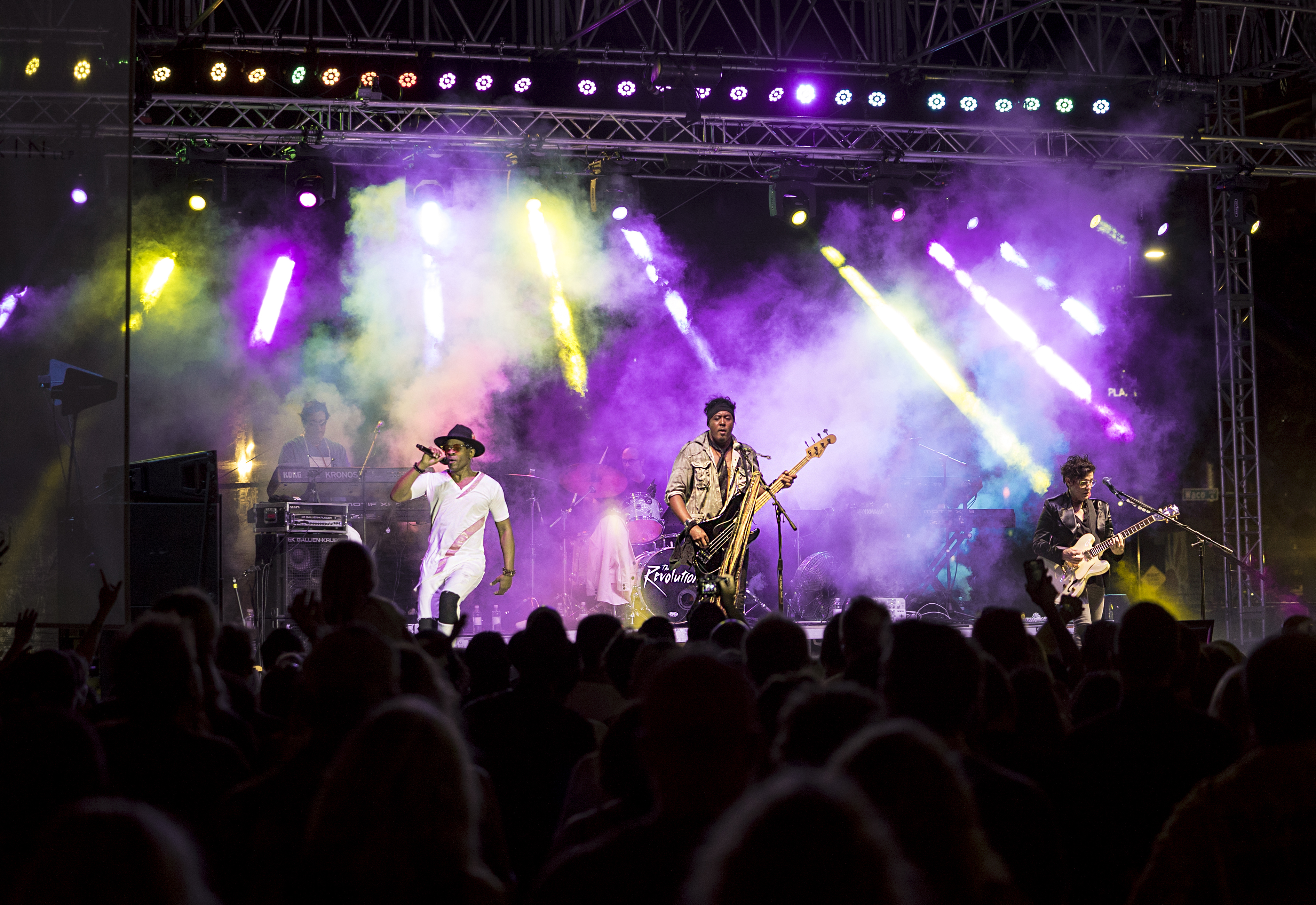 The Revolution playing at Wichita River Festival in 2018. Photo credit Brittany Hamilton.